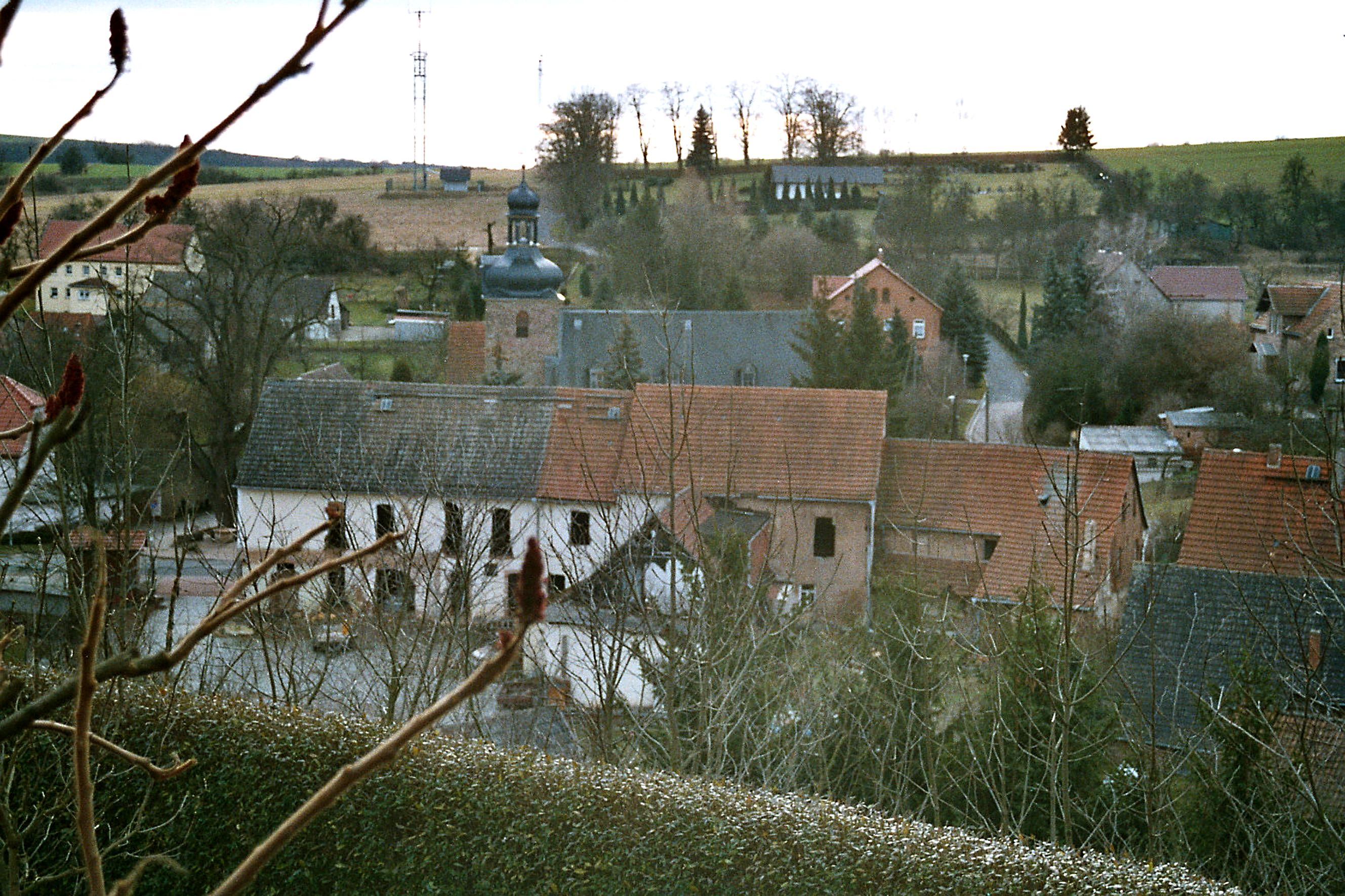 The village church in Obersdorf, urban district of Sangerhausen